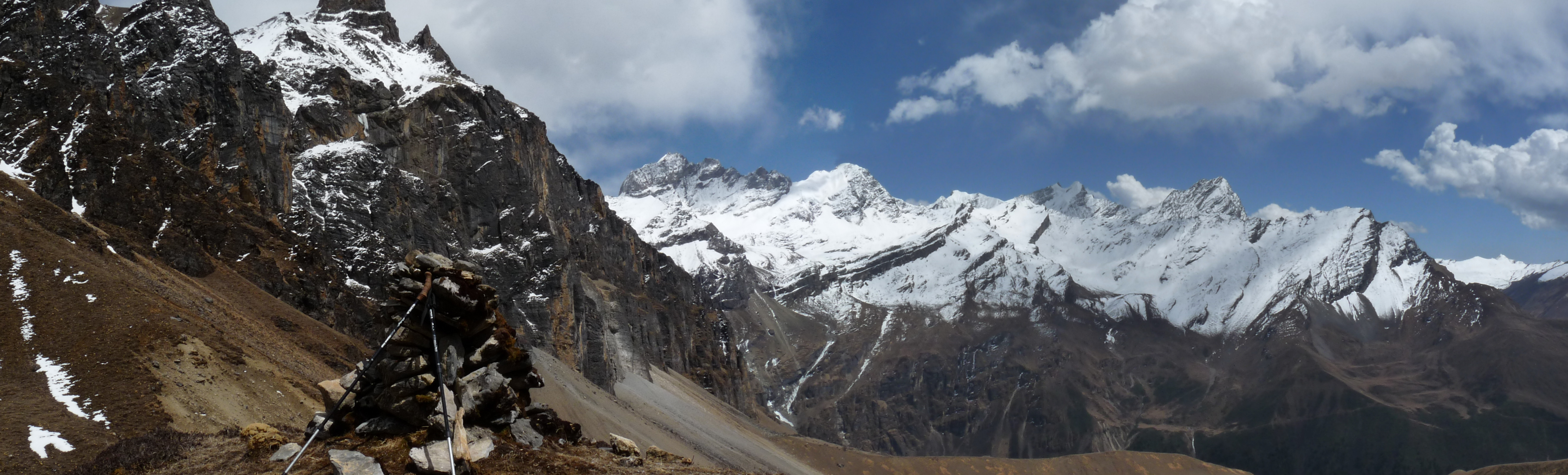 The Himalayas in Jigme Dorji National Park — in central and western Bhutan.